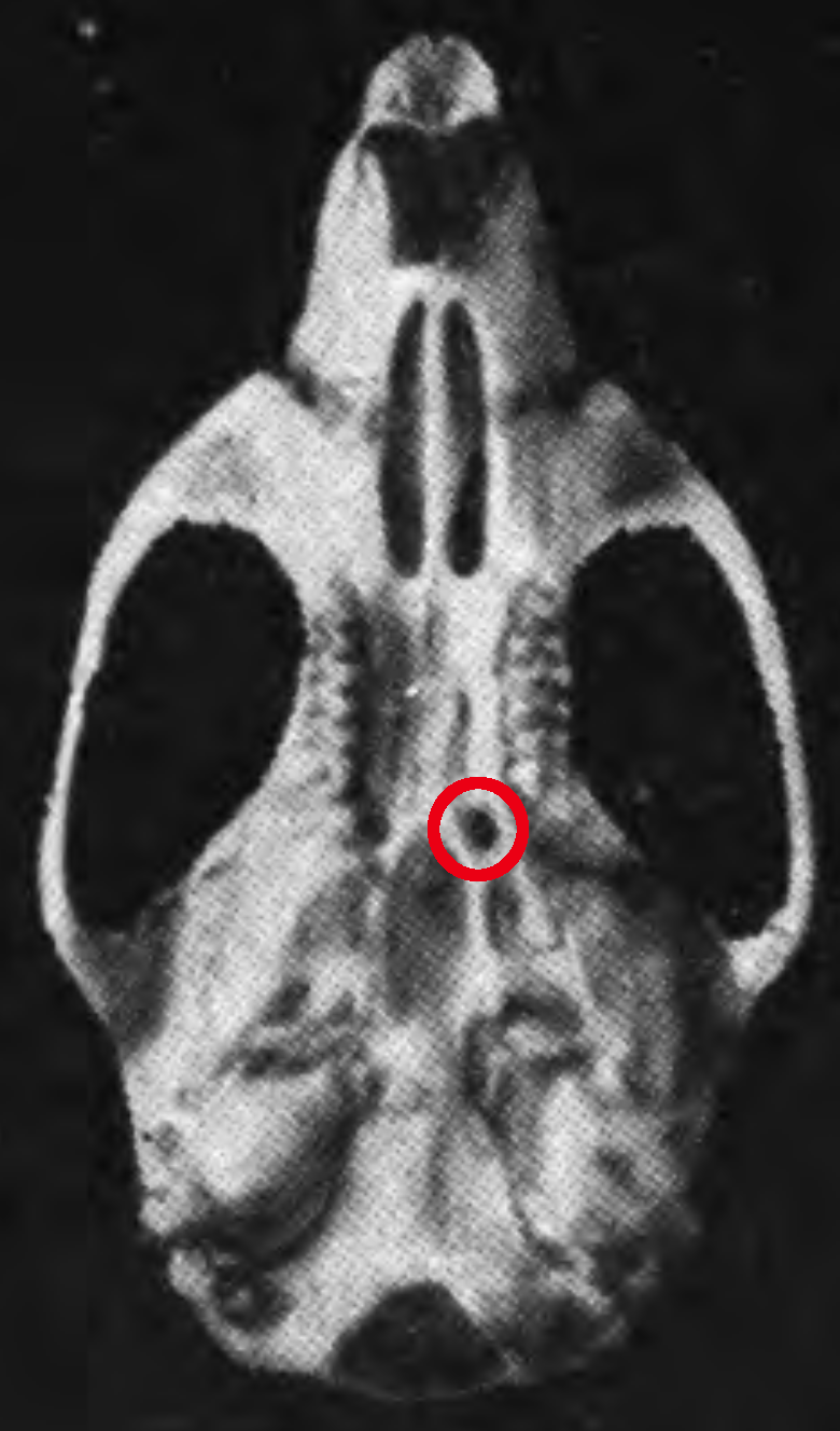 Skull of a specimen of Oryzomys peninsulae in ventral view, with the posterolateral palatal pits (recessed into a fossa in this species) indicated by a red circle.